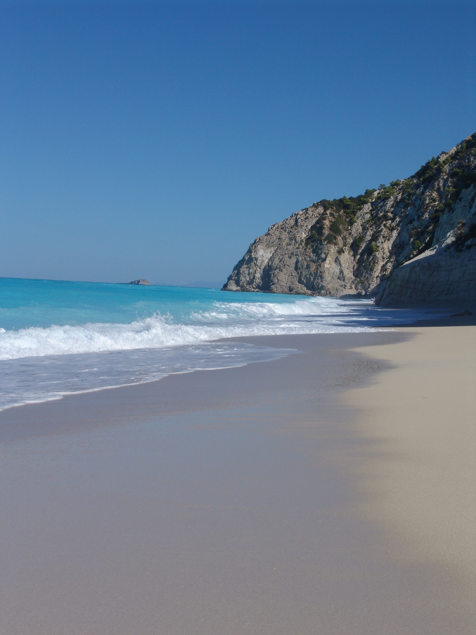 Information: Egremni Beach at the island of Lefkada, Greece. Author: Shannon Davis. Taken: September 1st, 2006.